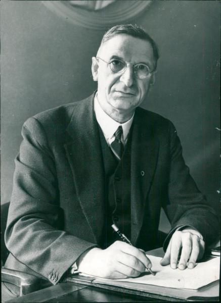 Photograph of Irish leader Éamon de Valera in 1946.